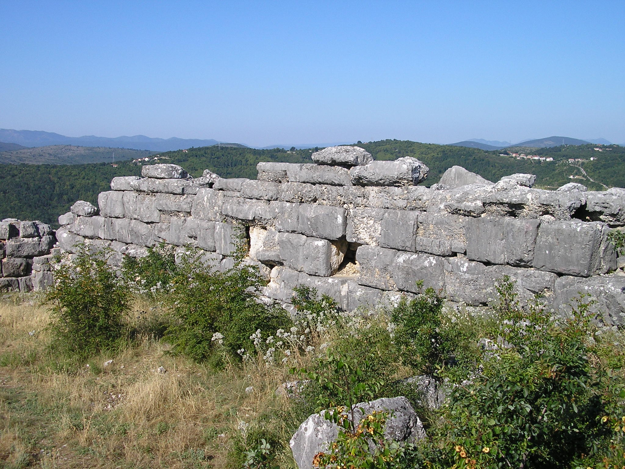 Daorson near Stolac